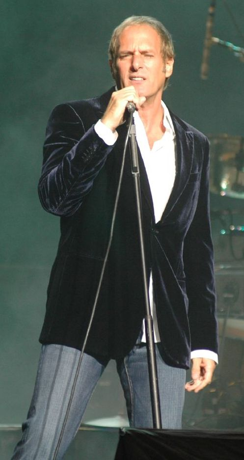 Michael Bolton performing in Sunrise, FL.